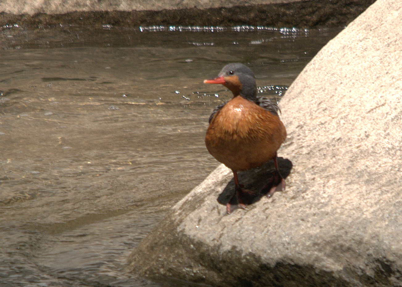 A bemale Torrent Duck standing on the rocky banks of Urumamba River, Peru.